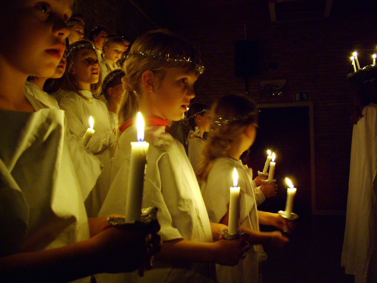 Sankta Lucia Procession in Denmark